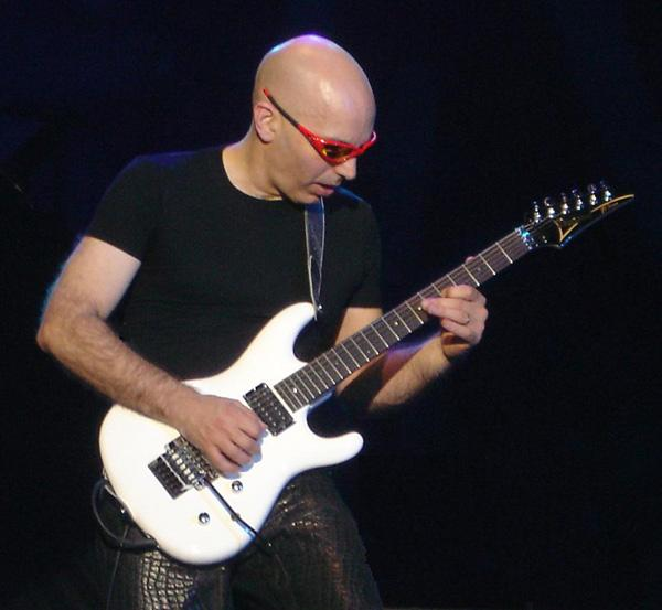 Musician Joe Satriani